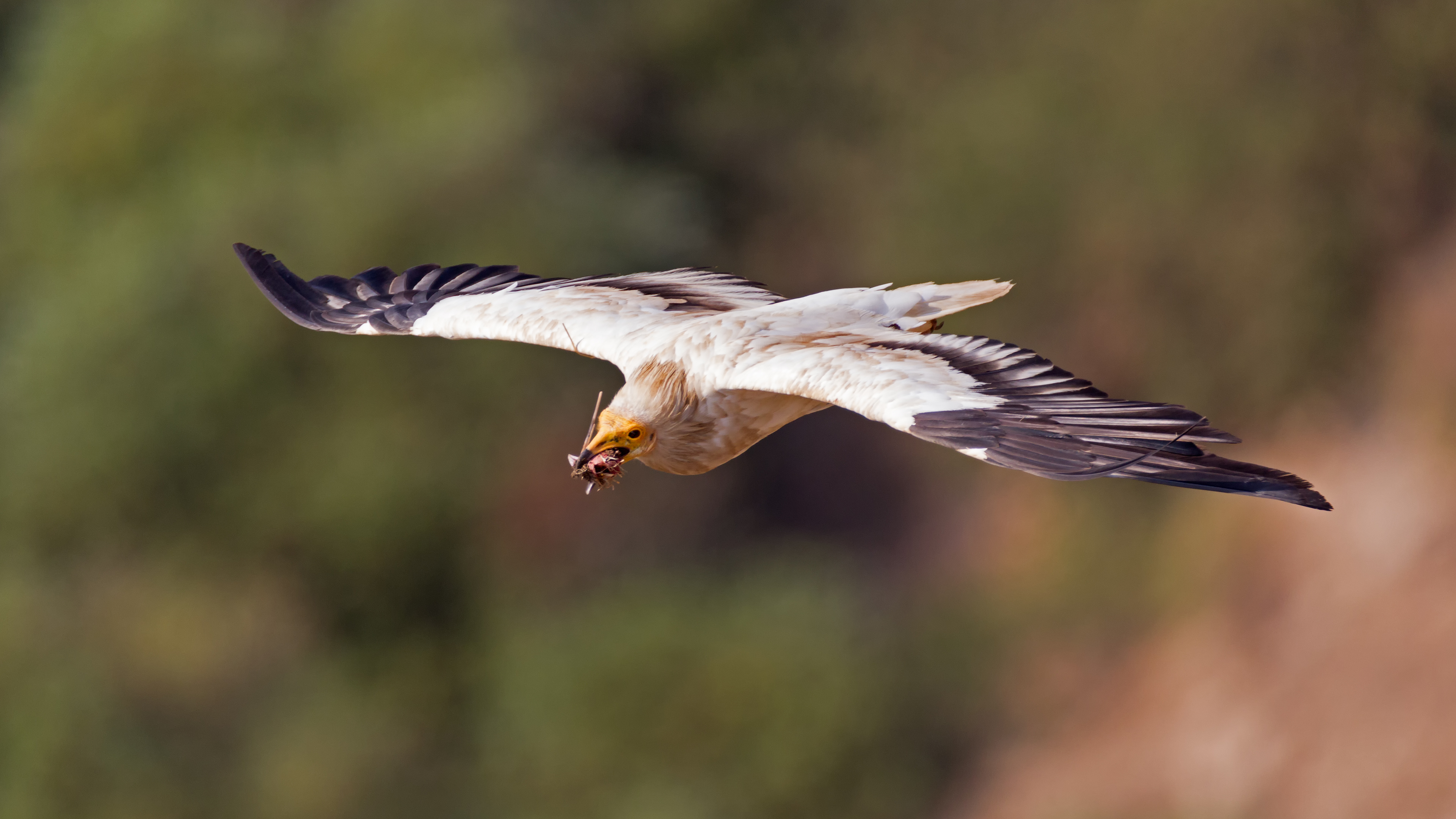 Egyptian vulture in flight at Gamla Nature Reserve (Israel), bringing some food to its nest.